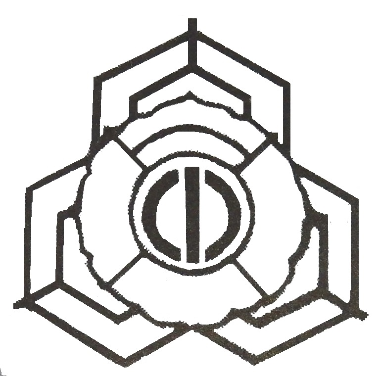 日立市立大雄院小学校校章 school emblem of Daioin Elementary School